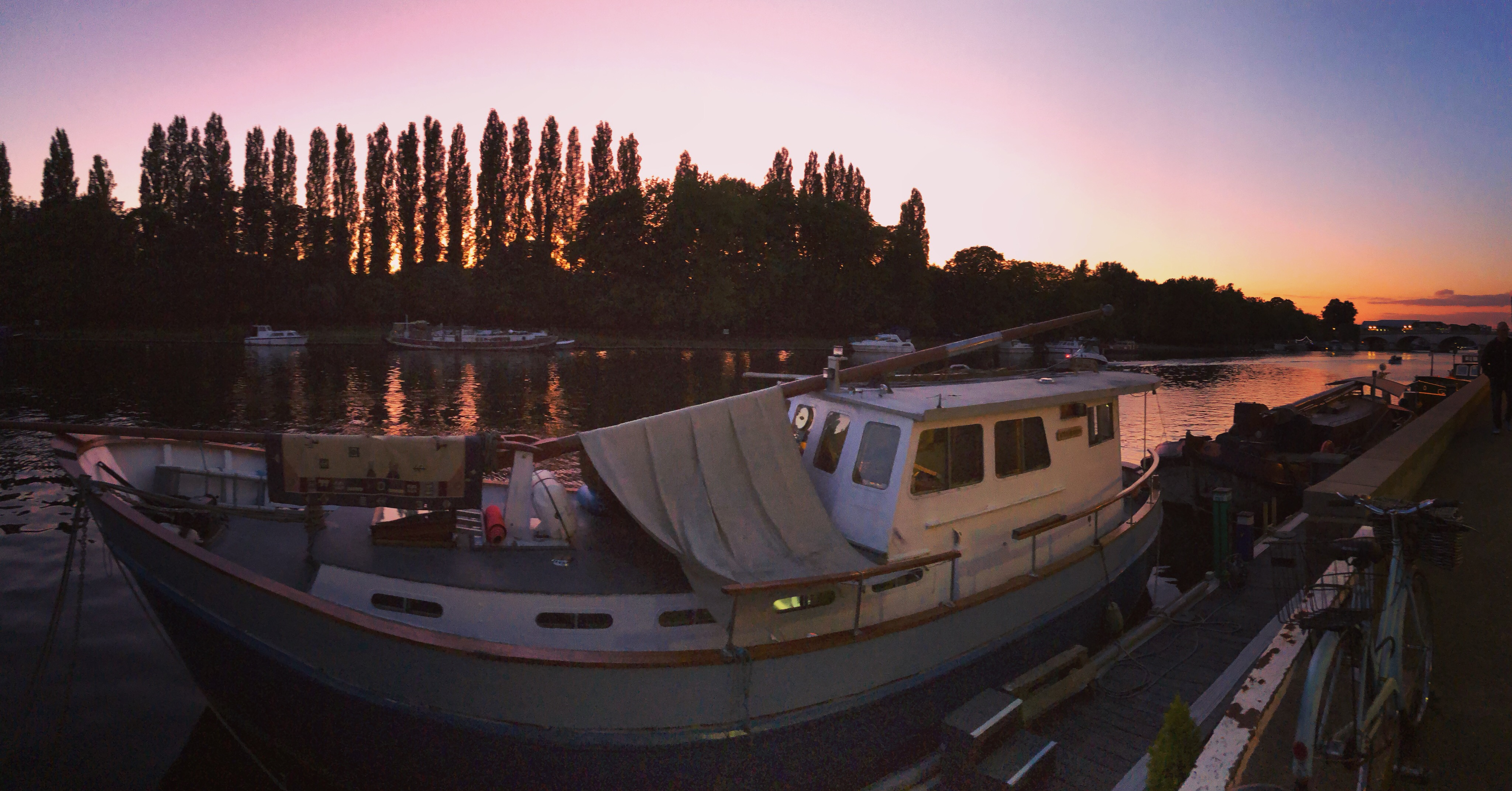 Kingston riverside sunset, a late summer, early autumn photo.